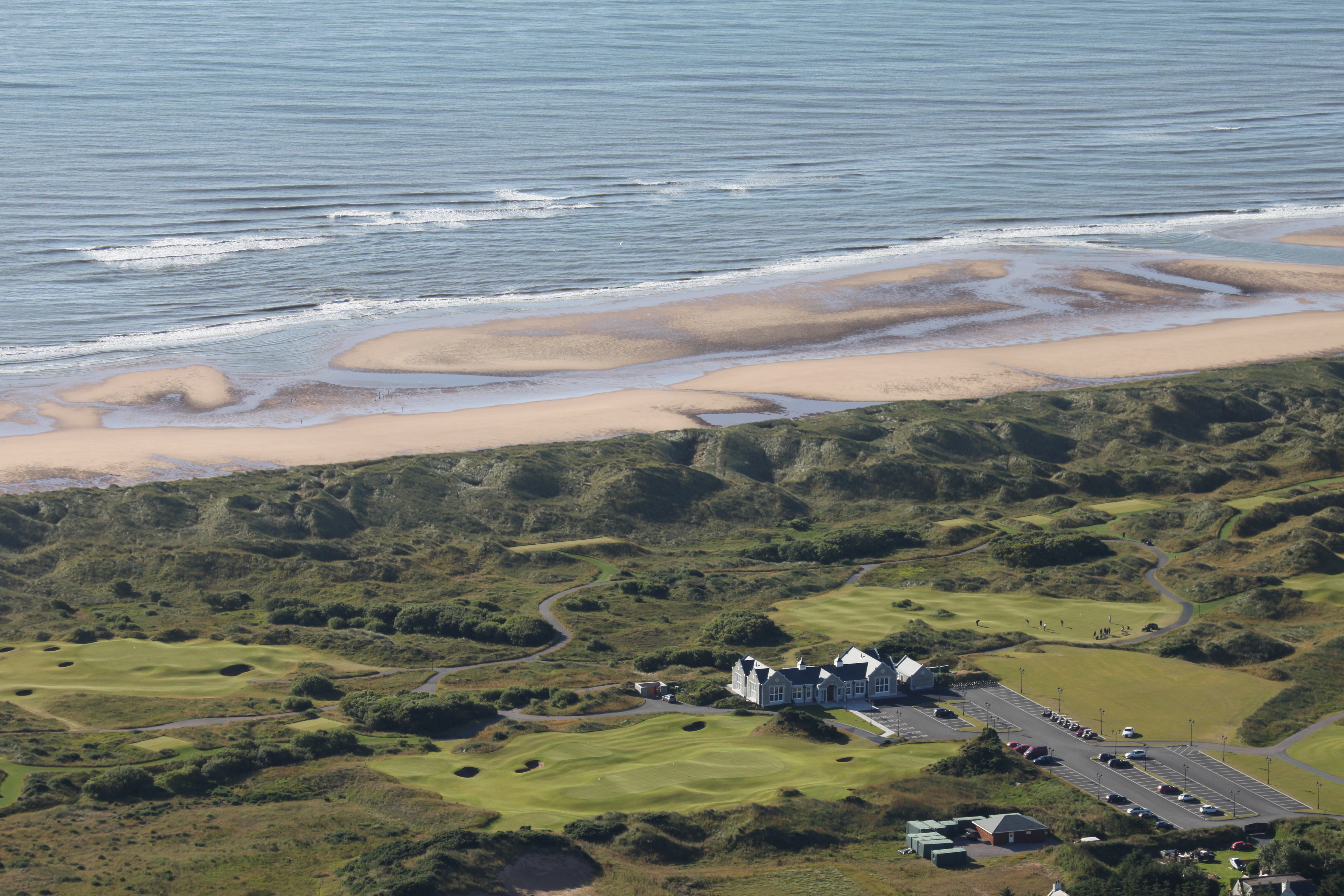 Taken by Cabro Aviation. Trump links at Menie